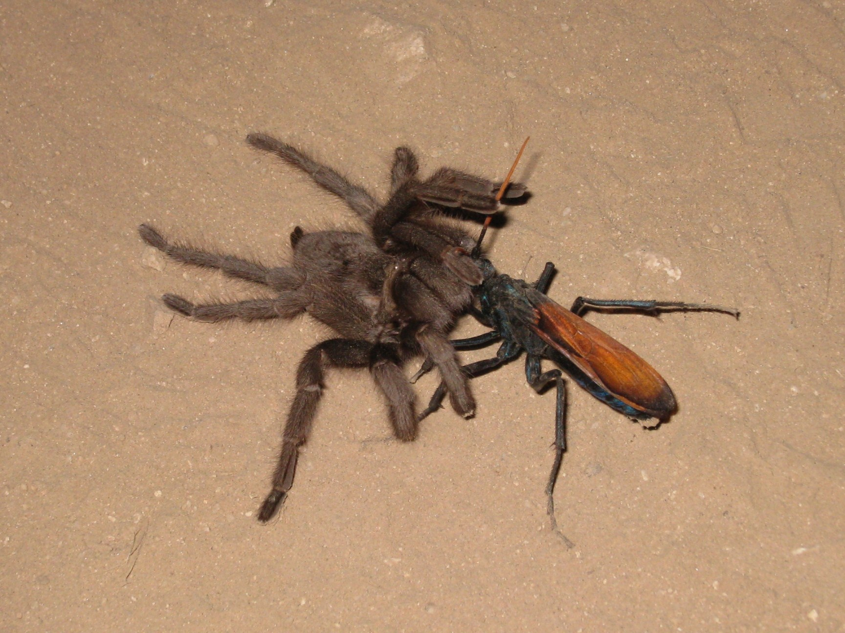 A tarantula hawk wasp dragging an envenomed tarantula across the ground.